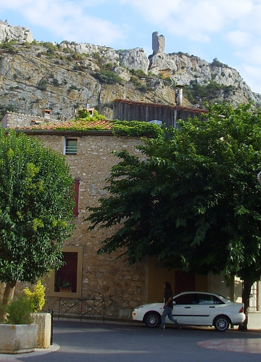 Tautavel (Perpignan-region), France: view from the village to donjon of Château de Tautavel